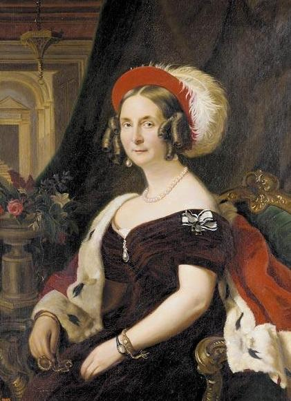 Frederica of Mecklenburg-Strelitz (1778-1841), Queen of Hanover or Frederica Wilhelmina of Prussia (1796-1850), Duchess of Anhalt-Dessau